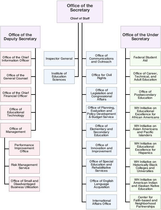 An organization chart of the United States Department of Education.